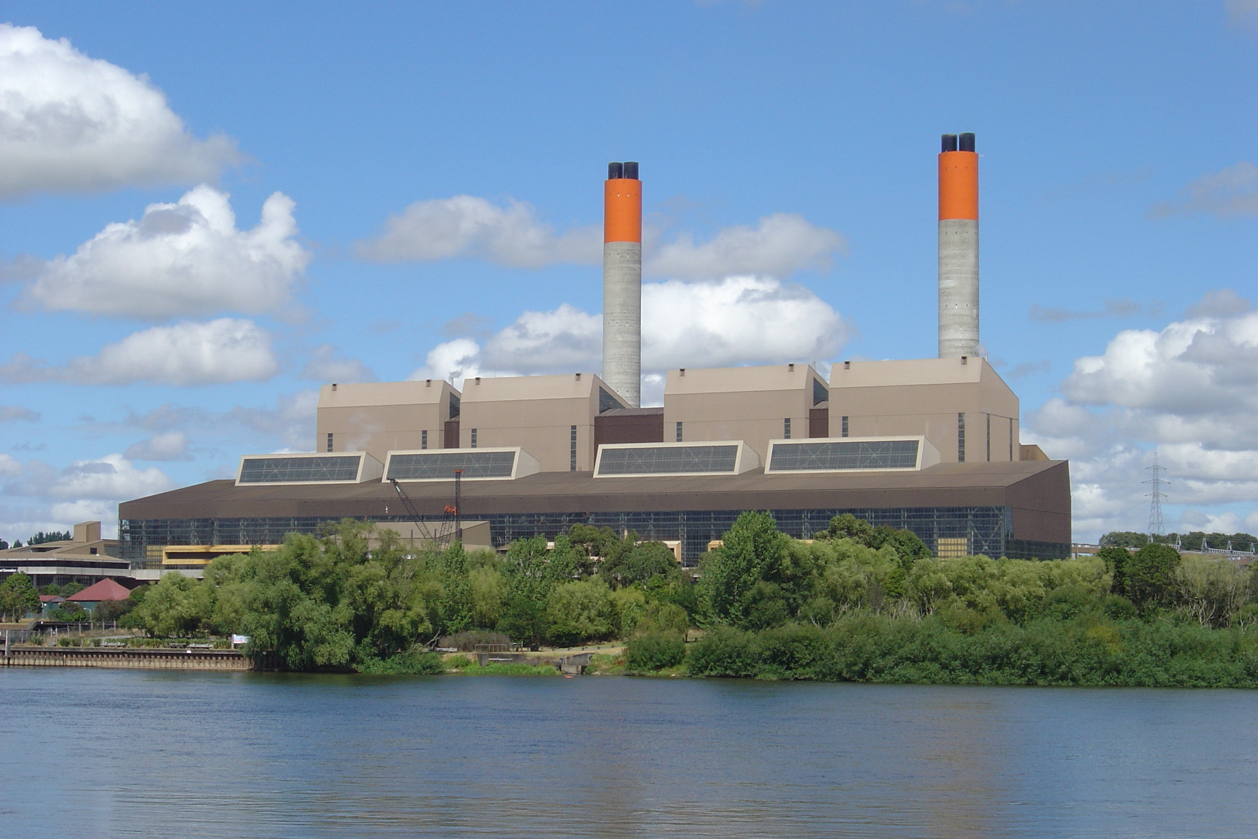 Huntly Power Station from the opposite bank of the Waikato River